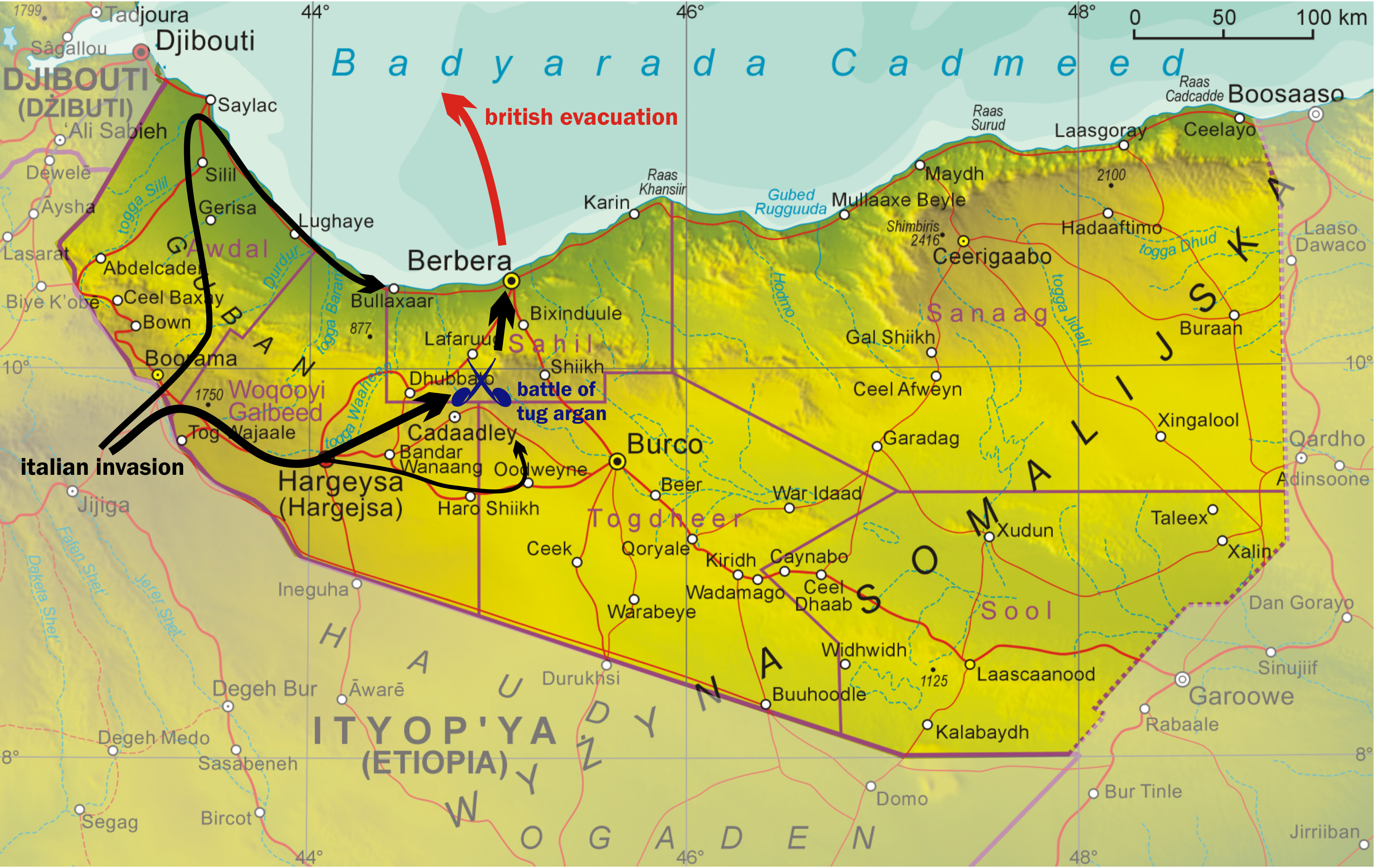 Map of the Italian invasion of British Somaliland. Meant to replace File:Italian_Invasion_British_Somaliland.JPG.